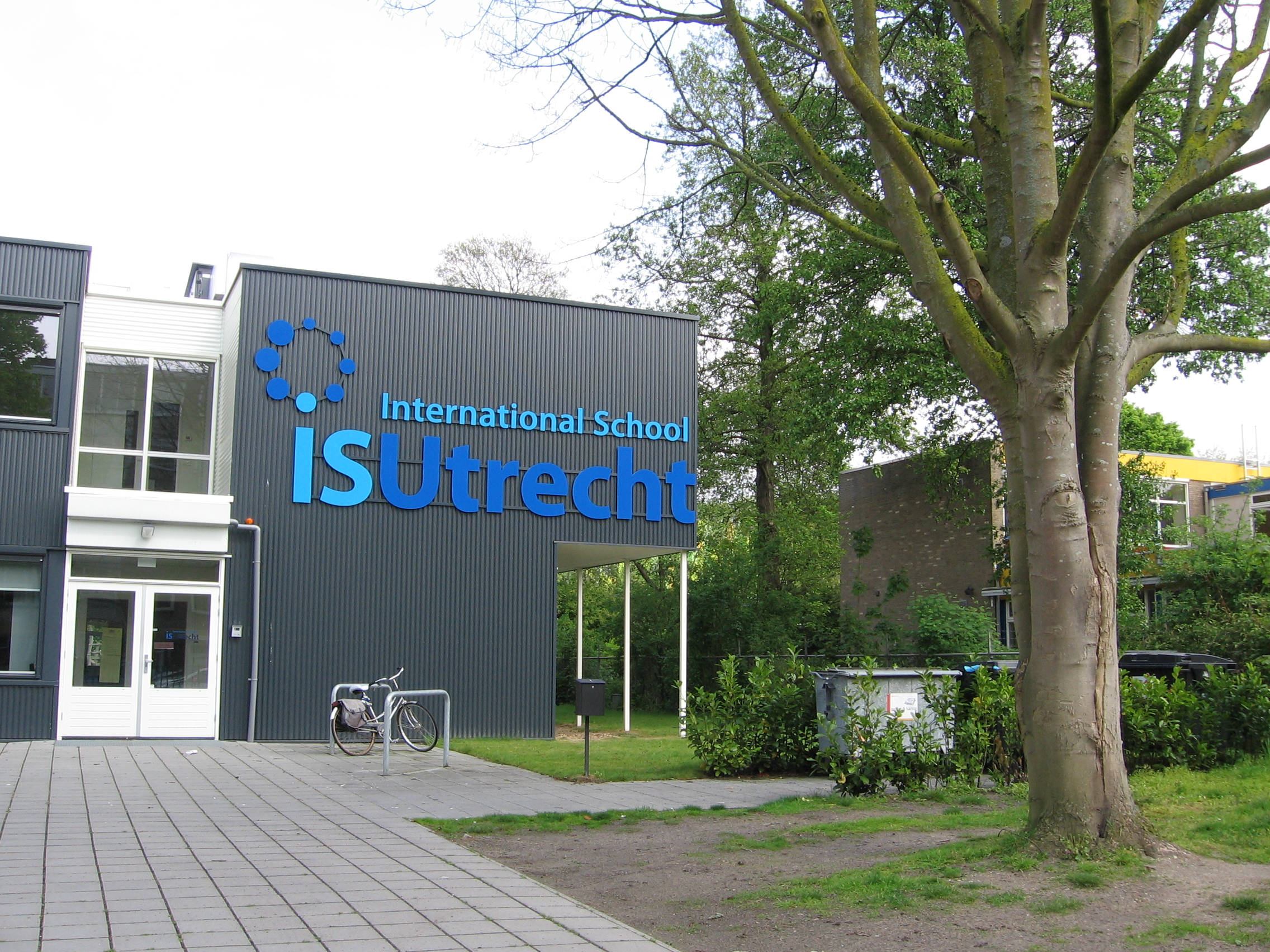 International School IS Utrecht.